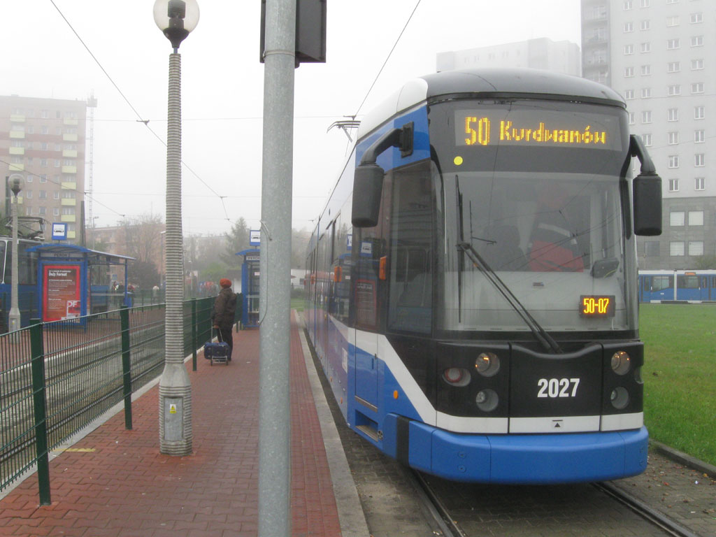 Tram in Kraków, Poland